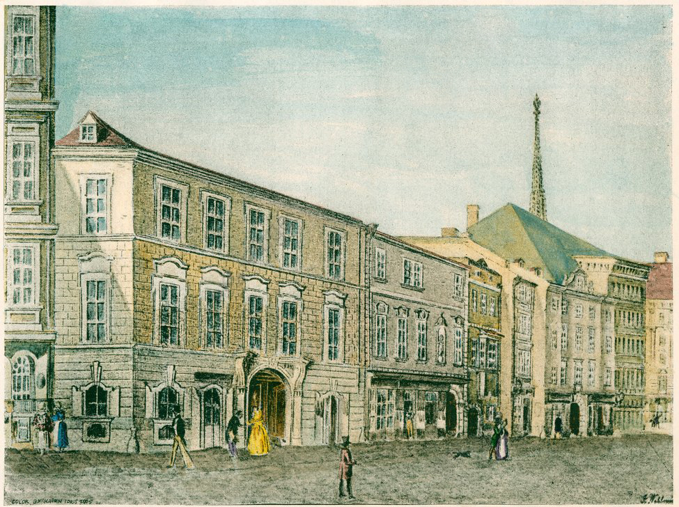 The house at the corner of Rauhensteingasse and Himmelpfortgasse (1st floor), since September 1790 Mozart’s home, he died there 5.12.1791.